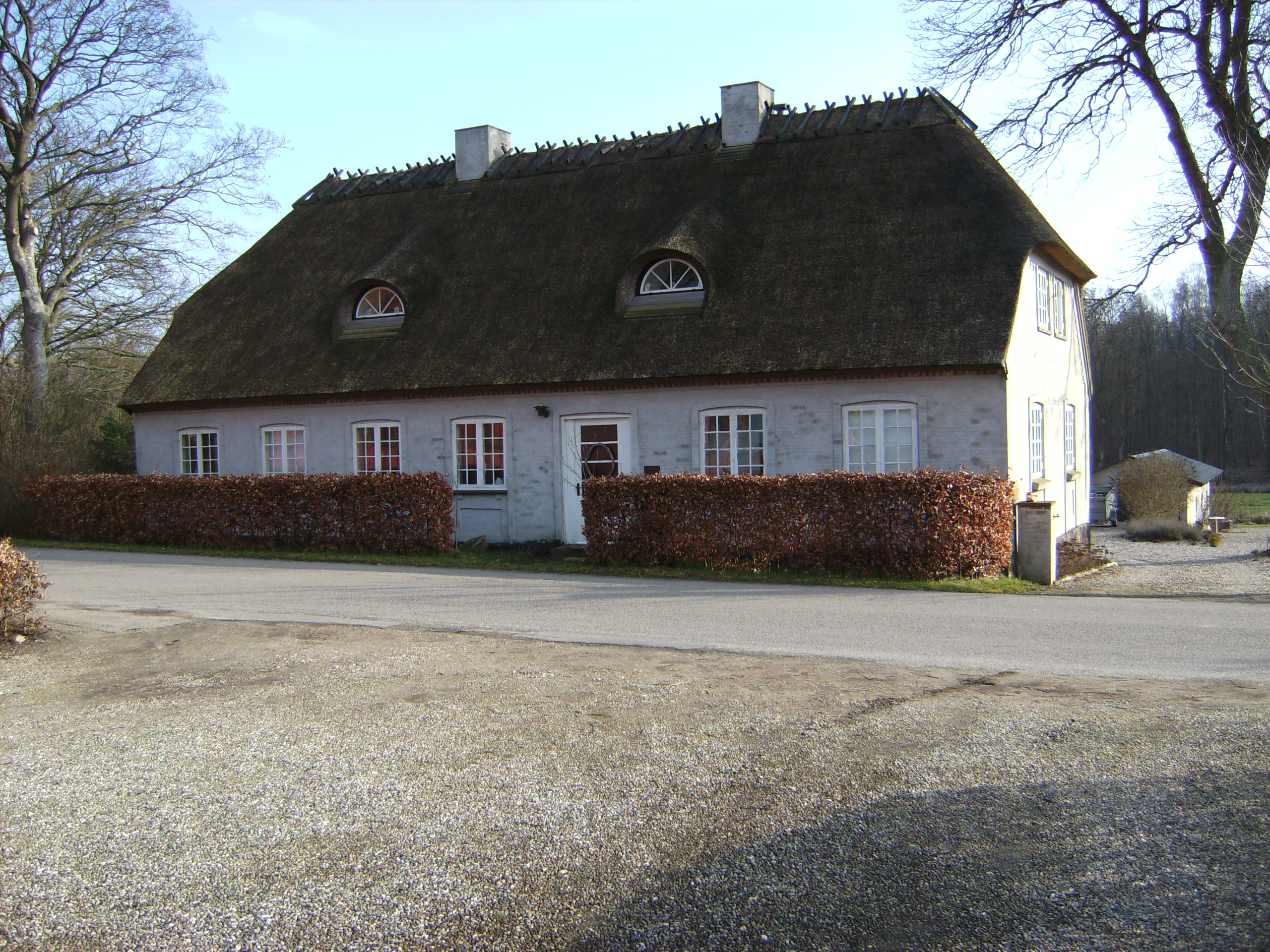 Former school i Godsted, Denmark